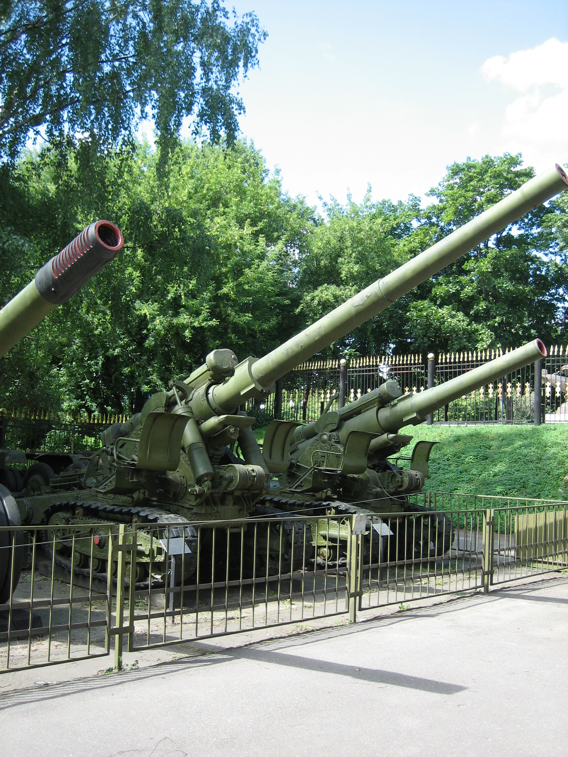 Soviet 152mm Br-2 Mark 1935 gun, displayed in Moscow Military Museum. Photo taken on 19 July, 2007. Source: Photo by me, User:Saiga20K.